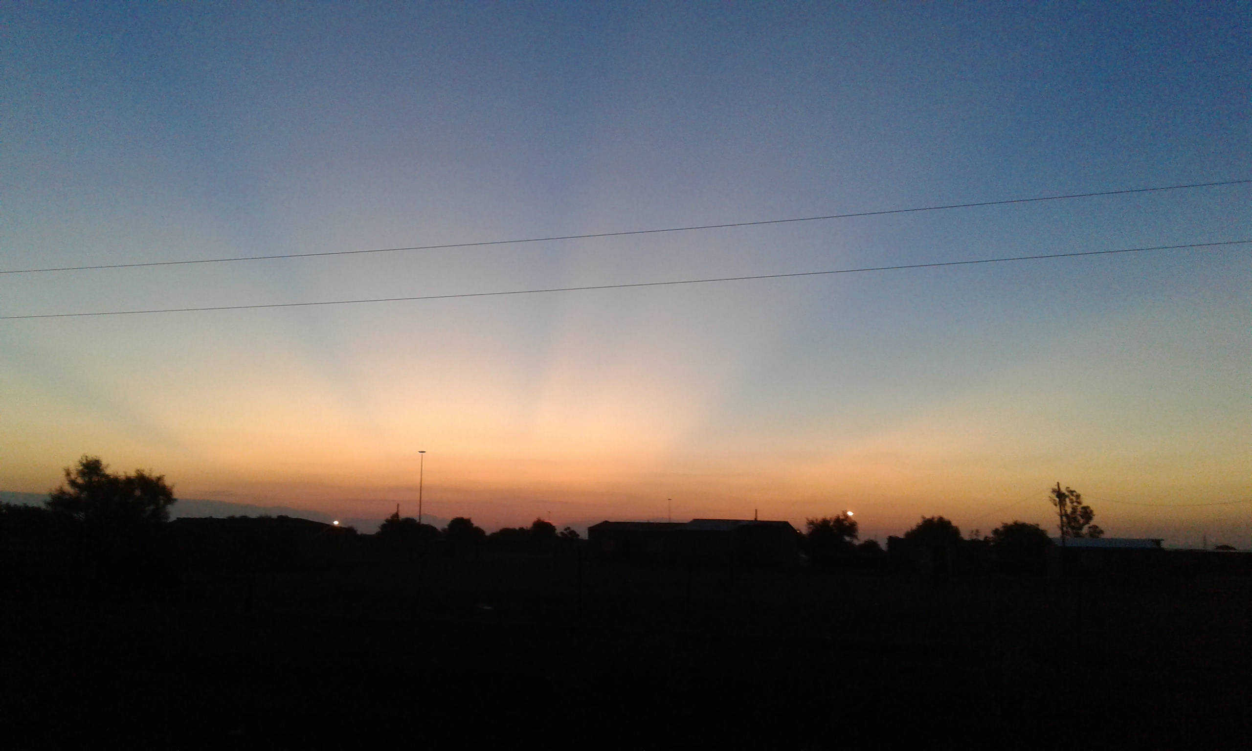 This is an image with the theme "Africa on the Move or Transport" from: South Africa